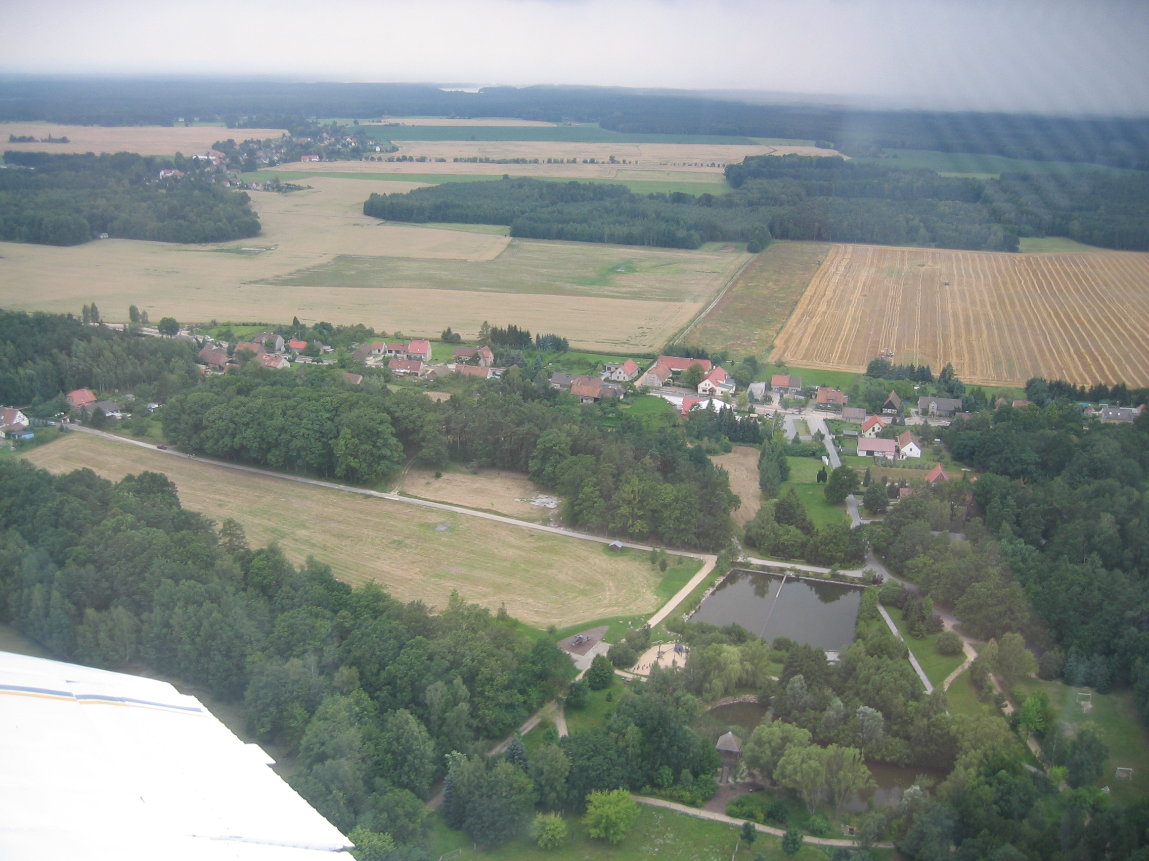 Aerial photograph of Stannewisch and Kosel (suburbs of Niesky)